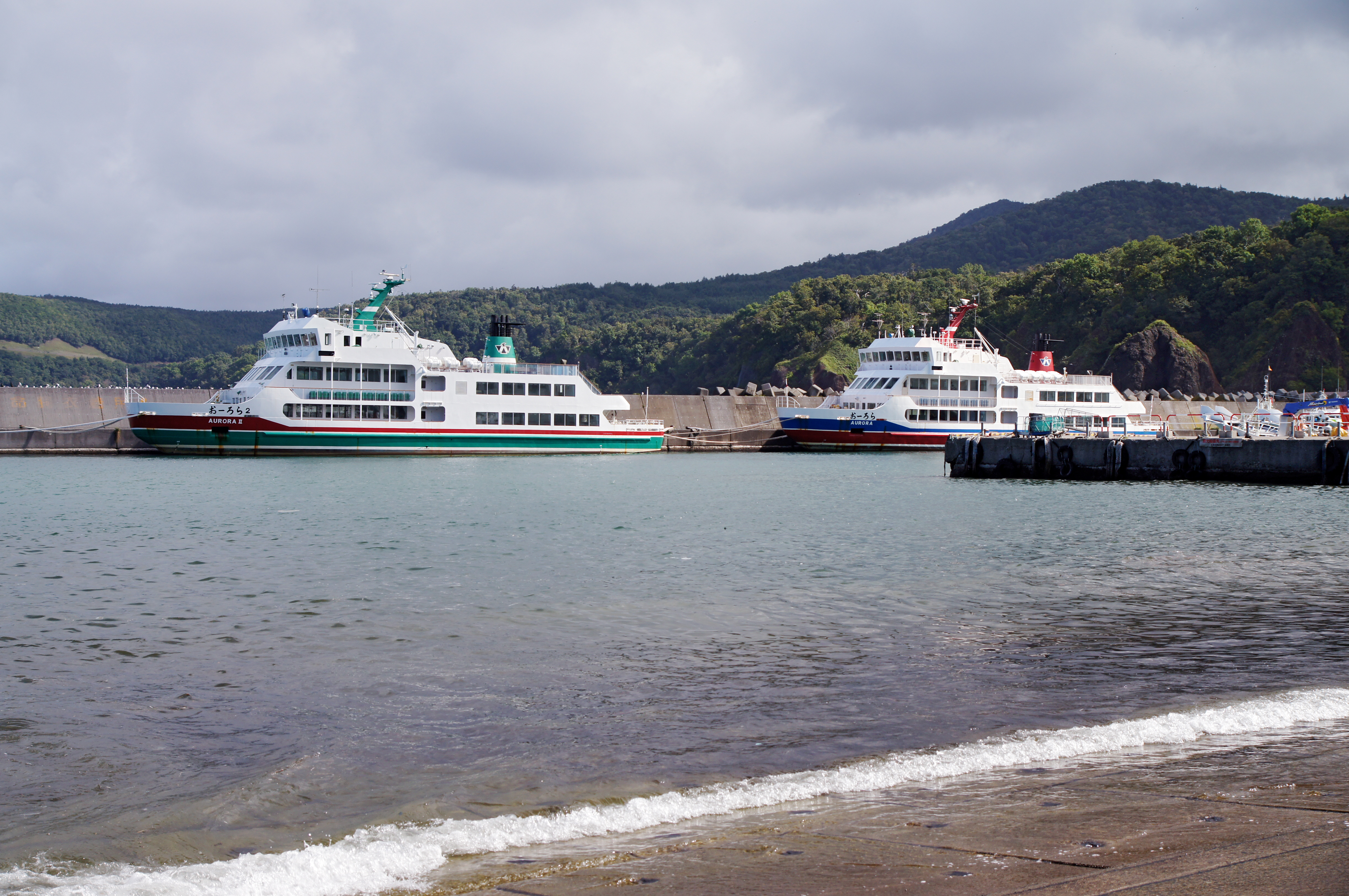 Utoro Port in Shari, Hokkaido prefecture, Japan